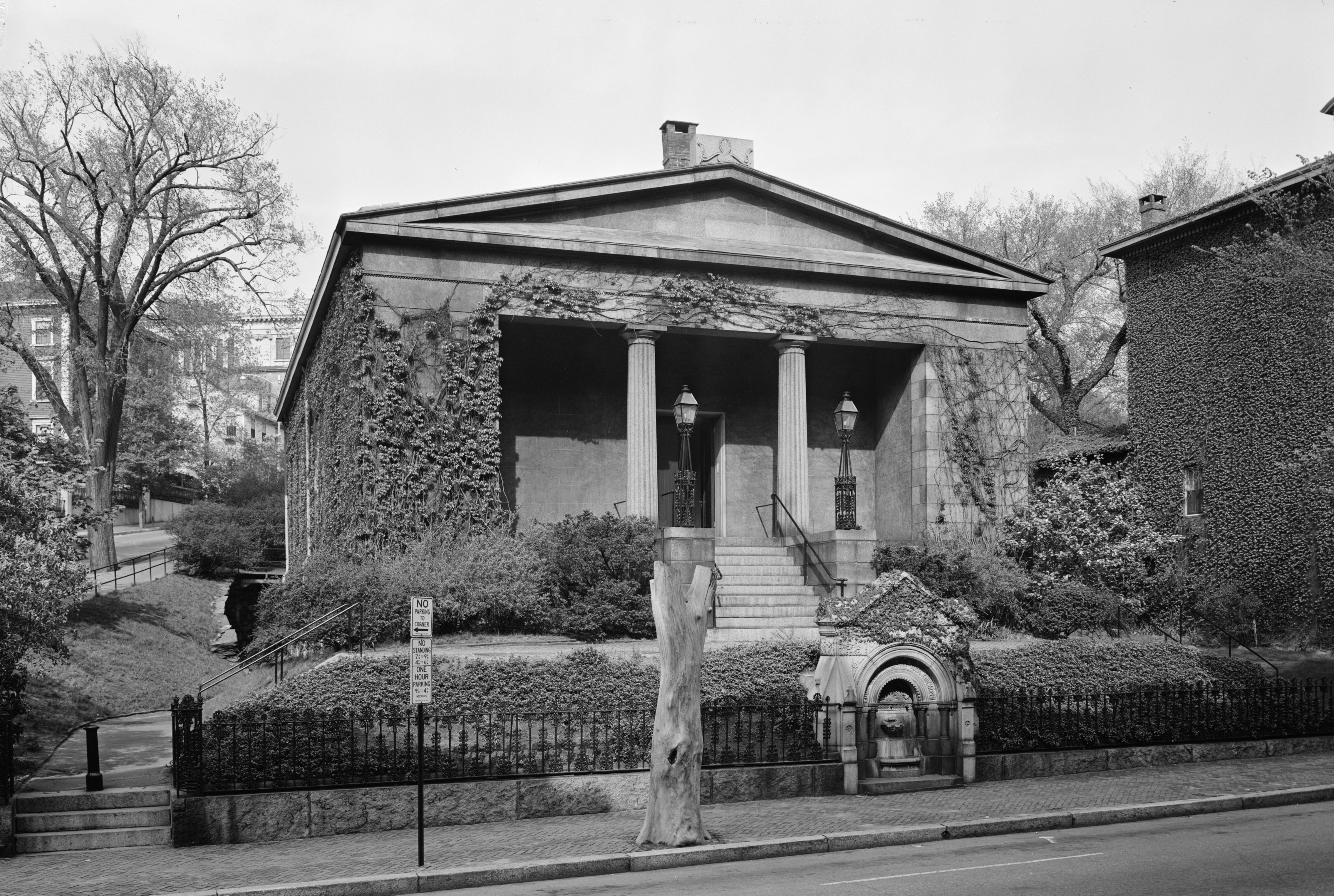 The Providence Athenaeum — a library founded in 1753, in Providence, Rhode Island.